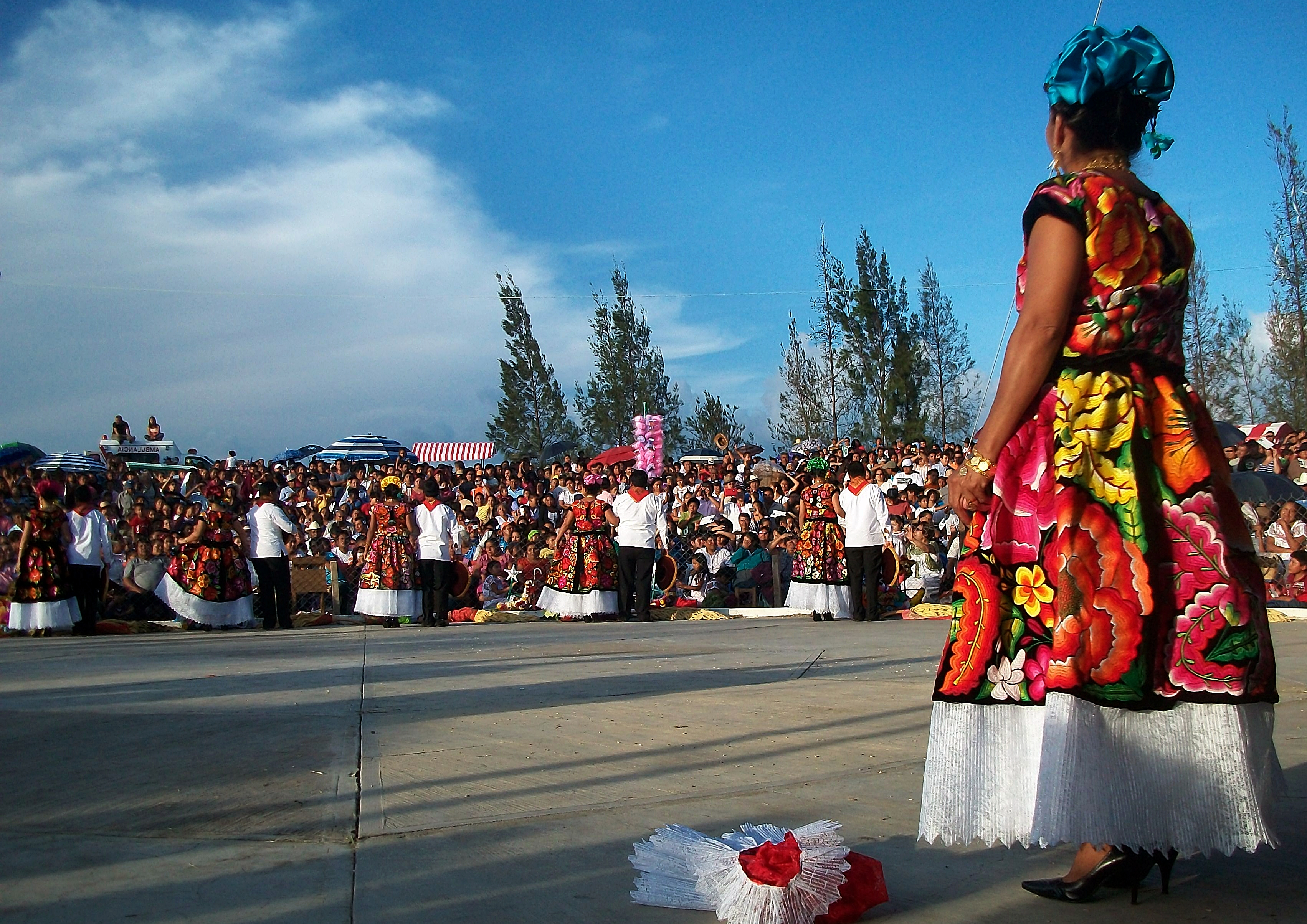 Guelaguetza. Festividad Oaxacaqueña que se celebra los últimos lunes del mes de julio